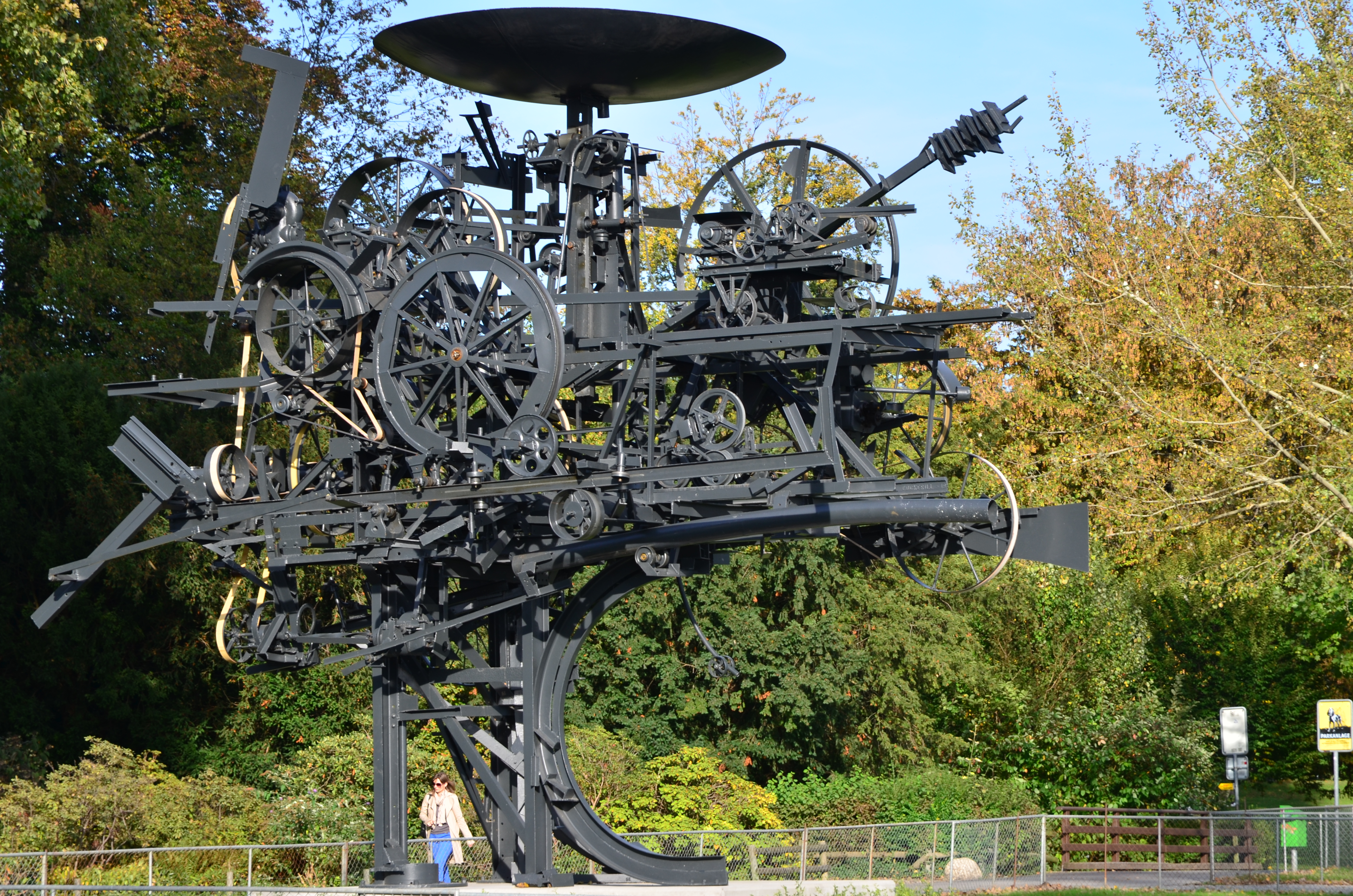 Heureka sculpture by Jean Tinguely at Zürichhorn in Zürich-Seefeld